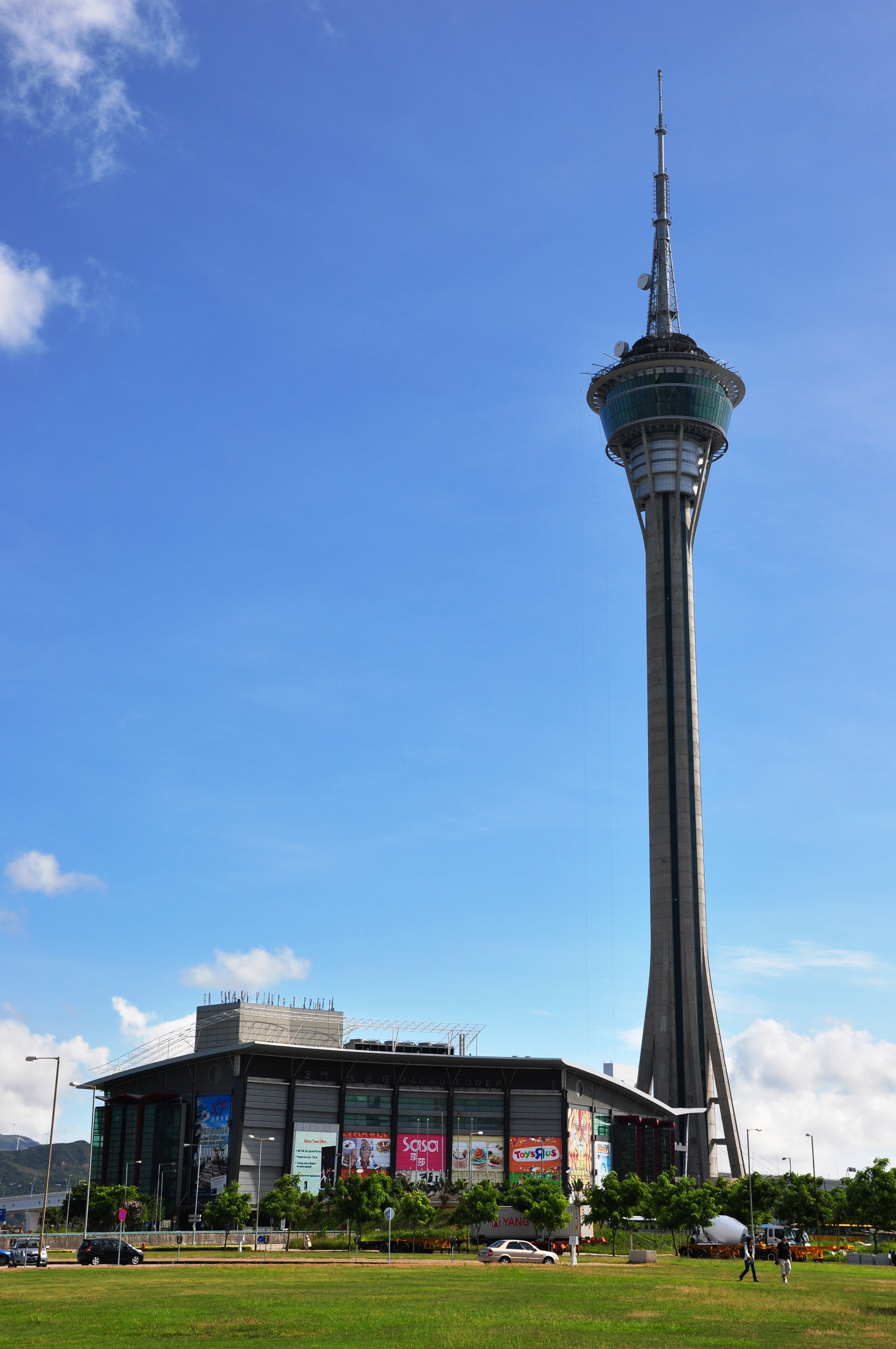 Macao Tower